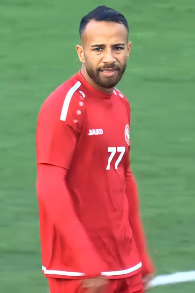 Hassan Al Mohamed with Akhaa Ahli Aley against Ahed during the 2019-20 Lebanese Premier League season